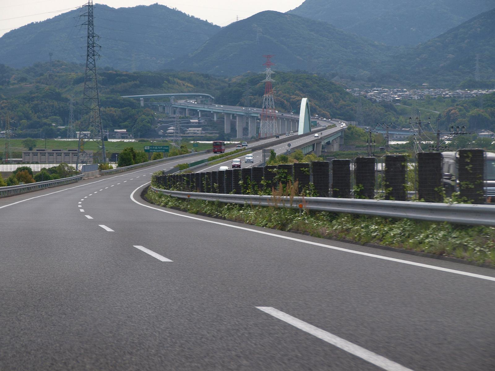 Higashi Kyushu Expwy near Oita Miyakawauchi IC, Oita City, Oita Pref., Japan